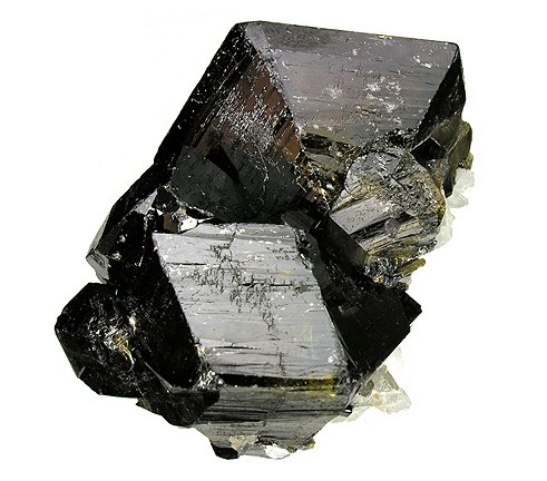 Cassiterite Locality: Viloco Mine (Araca mine), Loayza Province, La Paz Department, Bolivia (Locality at ) Size: 5.8 x 5.5 x 4.2 cm. Bolivia has probably produced more tin than any other country in the world. The great tin mines at Viloco (sometimes called Araca) have produced some of the most magnificent Cassiterite specimens extant. This particular specimen consists of several fine, sharp and lustrous, brown/black cyclic twinned crystals measuring up to 3.8 cm across with white crystals of Quartz.